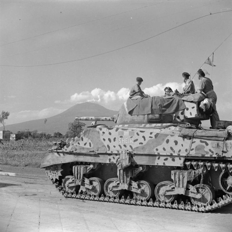 Sherman tank, named 'Sheik' of the Scots Greys, with distinctive camouflage.